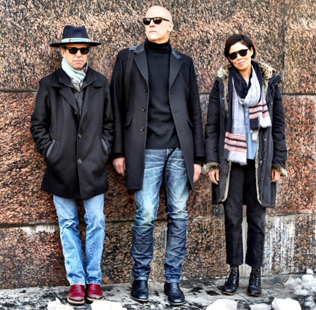 Mark McKinnon, John Heilemann, Alex Wagner, cast of "The Circus: Inside the Greatest Political Show on Earth"